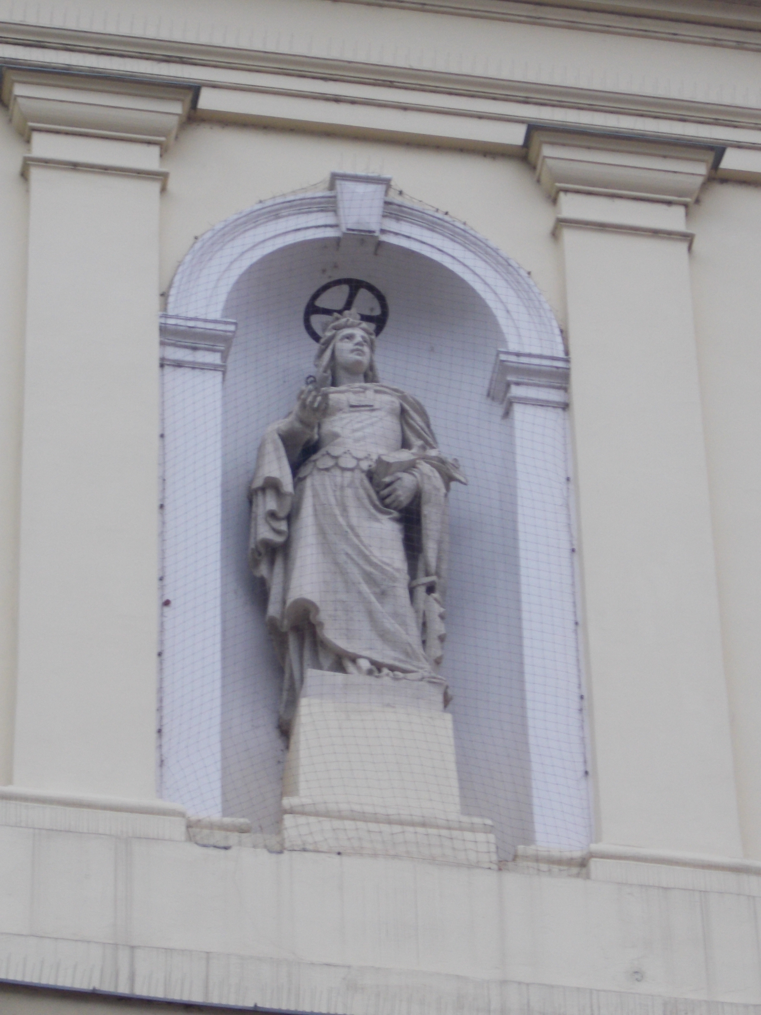 Saint Catherine Church. Above the gates stand (in niches) the Statue of Saint Catherine of Alexandria, Bishop Saint Gellért, Charles Borromeo. - Attila Street, Tabán, Budapest